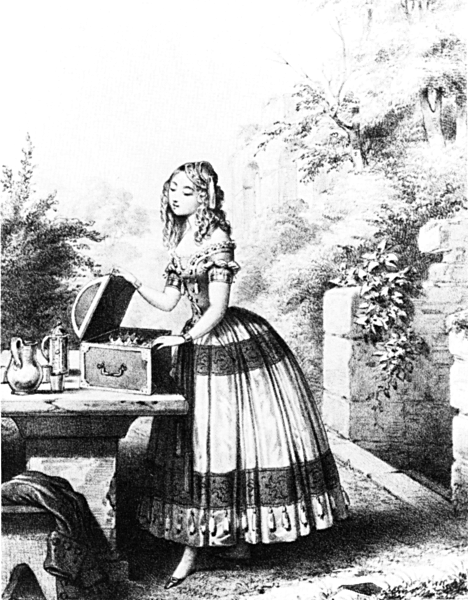 Auber - Les diamants de la couronne - Sophie Anne Thillon as Catarina